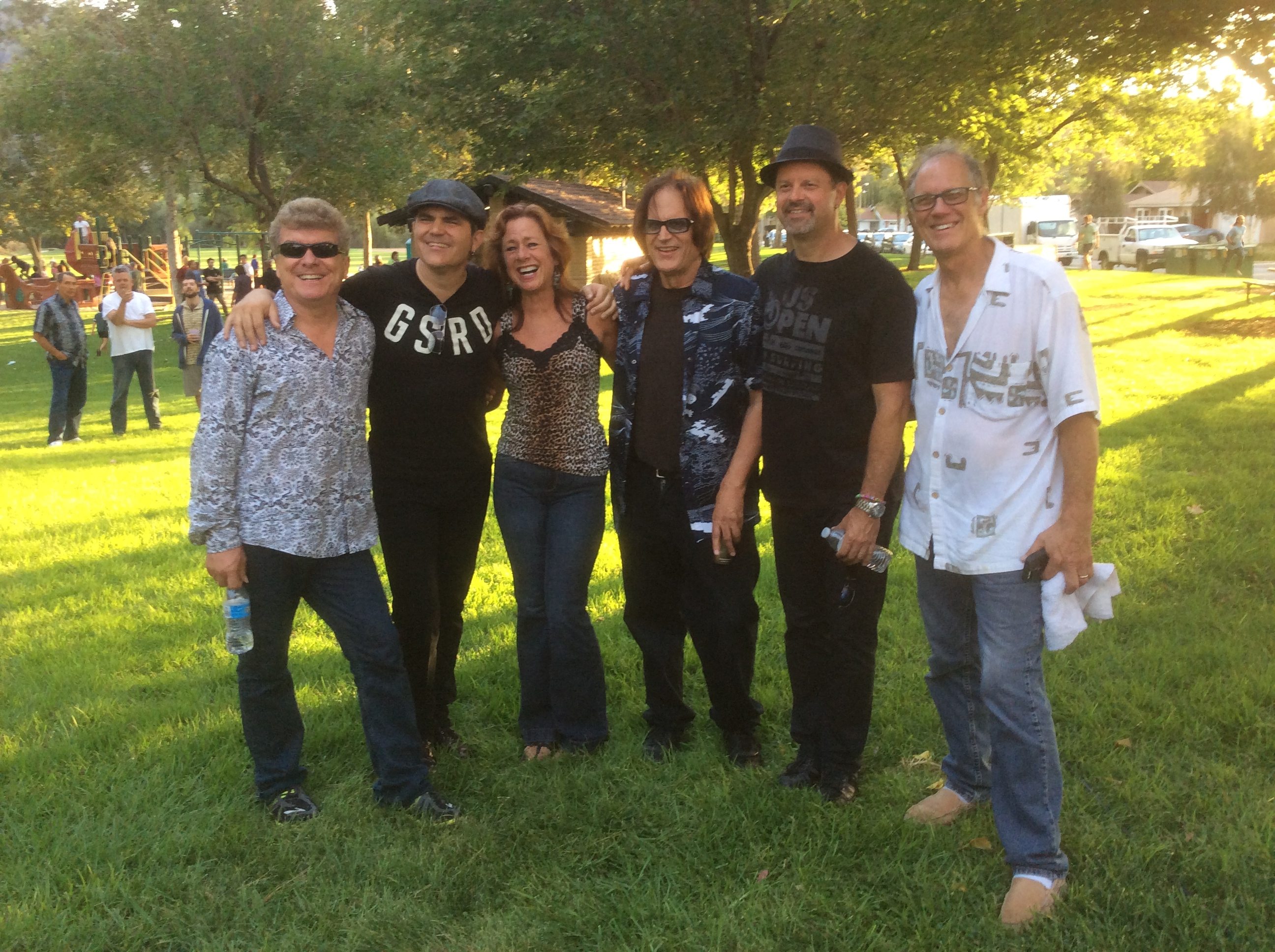 Ambrosia between sets at an outdoor performance in Agoura Hills, CA on August 3, 2014